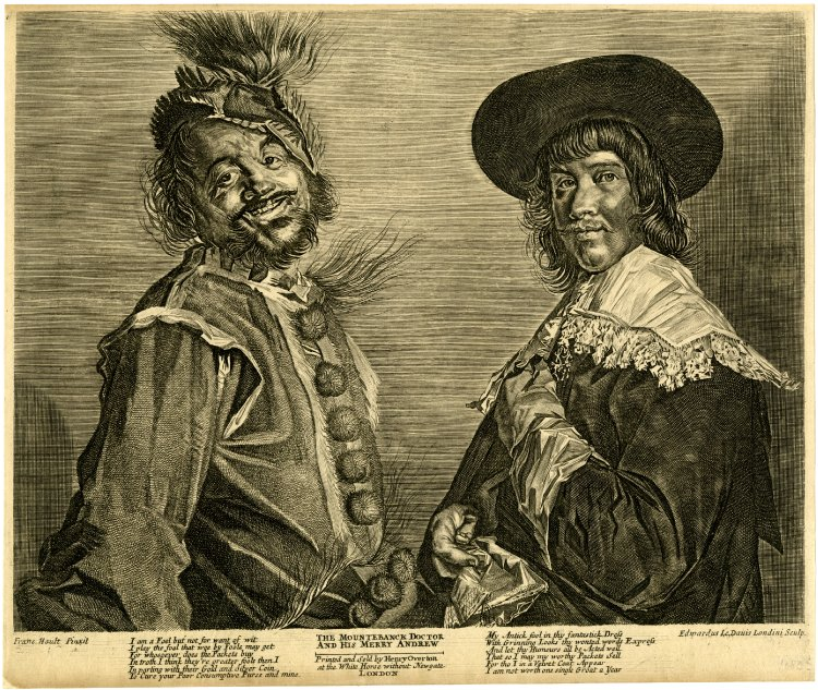 The Mountebank Doctor and his Merry Andrew